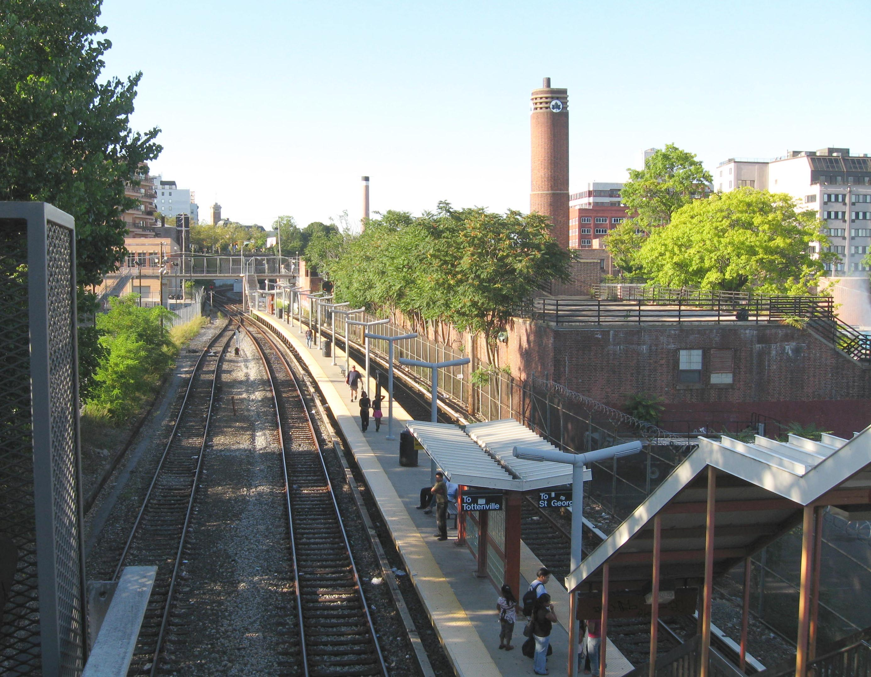 Looking north from Hannah Street overpass and down into Tompkinsville (Staten Island Railway station) on a sunny afternoon. This southern entrance closed a few months later, having no turnstiles.